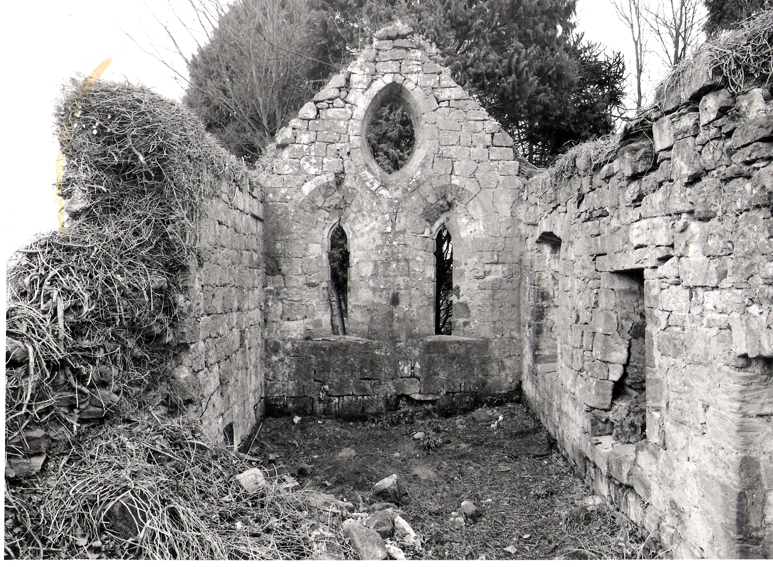 Norman Gothic style chapel in grounds of Keith Marischal